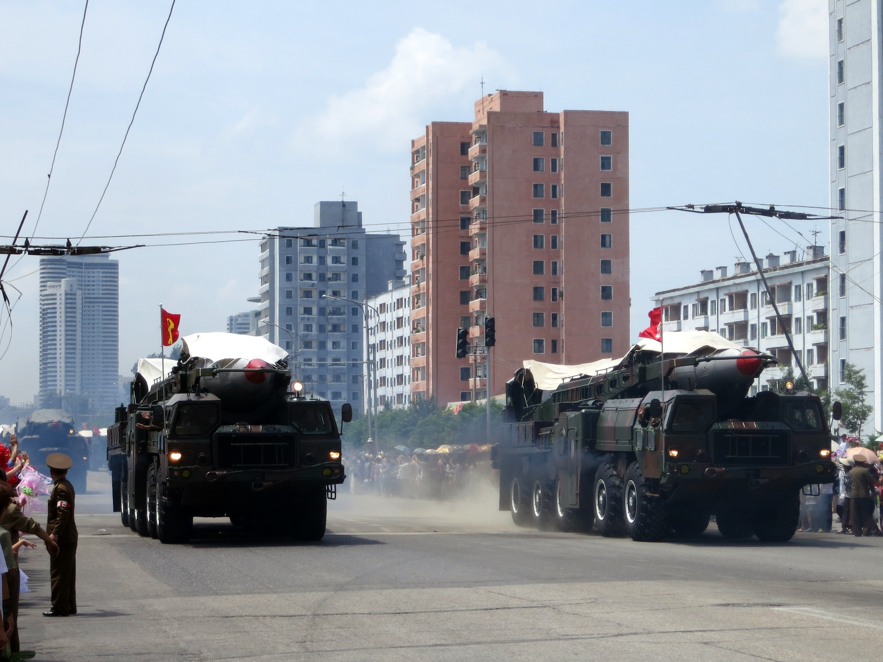 North Korea's ballistic missile - North Korea Victory Day-2013